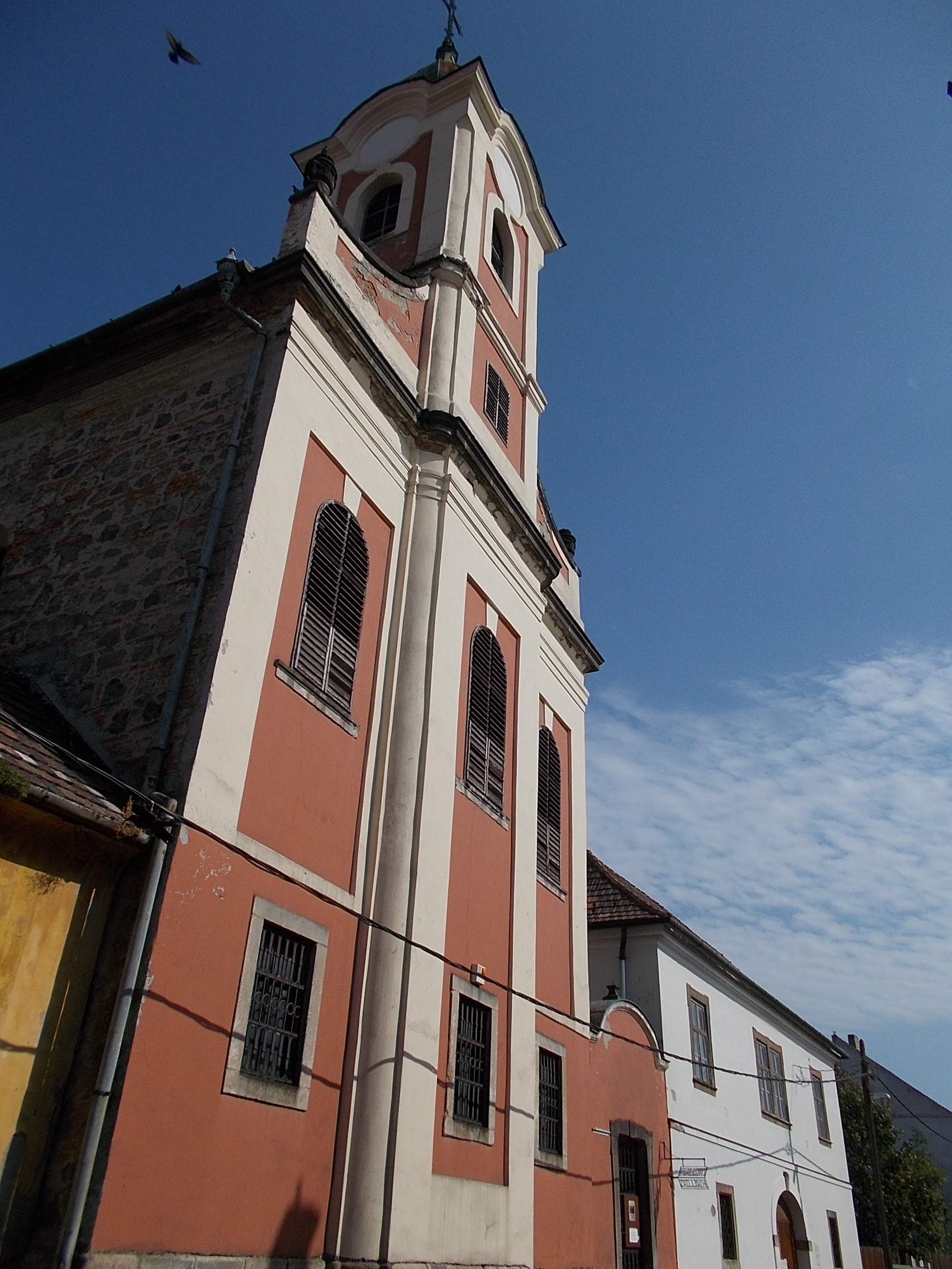 Greek Catholic church. Listed ID 7510. A Single nave Baroque church now museum. In 1792 founded, built in 1792, rebuilt in 1824. - Katona Lajos utca, Március 15. tér, Vác, Hungary